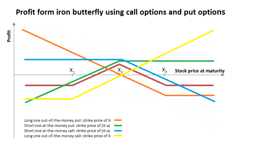 Payoff Graph of Iron Butterfly Option Strategy Broken Down